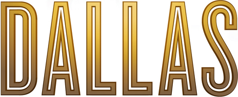 Logo for the 2012 American television series Dallas